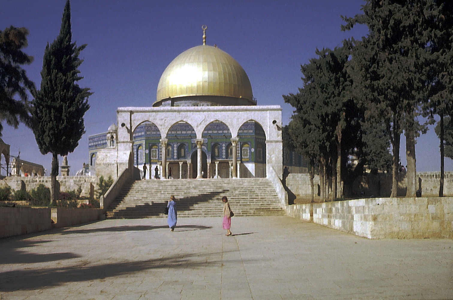 The Dome in Jerusalem